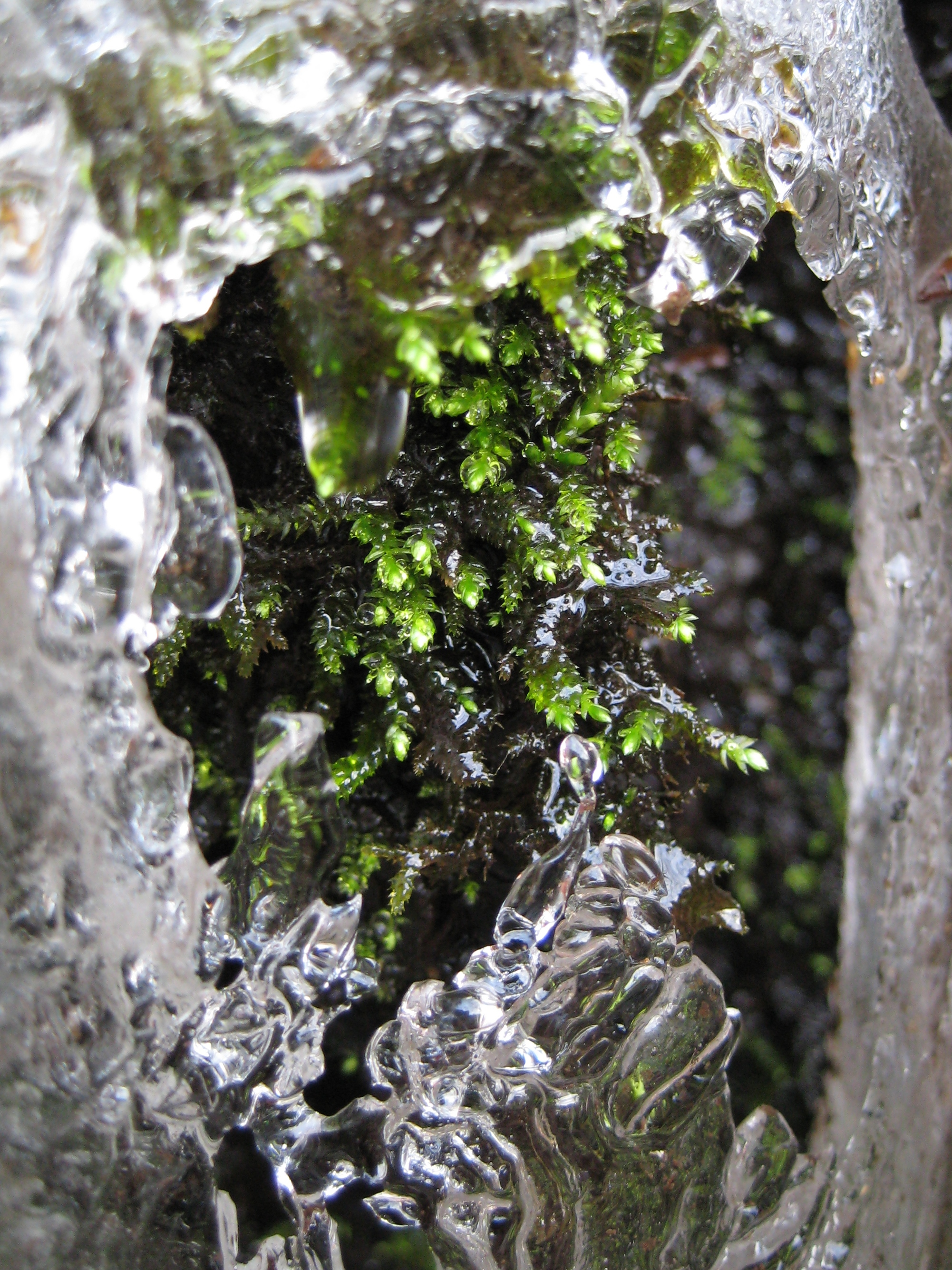 Brachythecium cf. rivulare